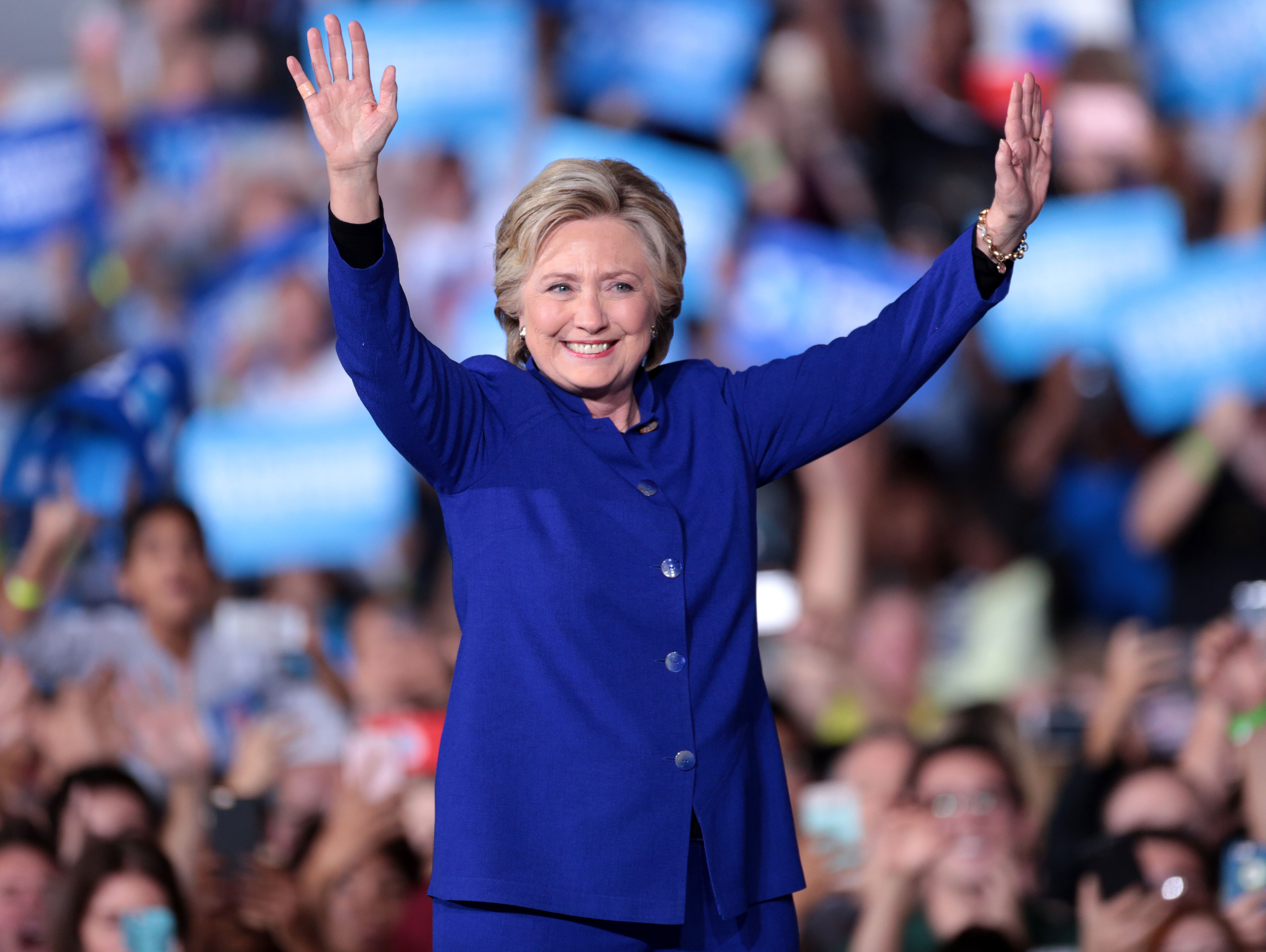 Hillary Clinton speaking at a campaign event in Tempe, Arizona.